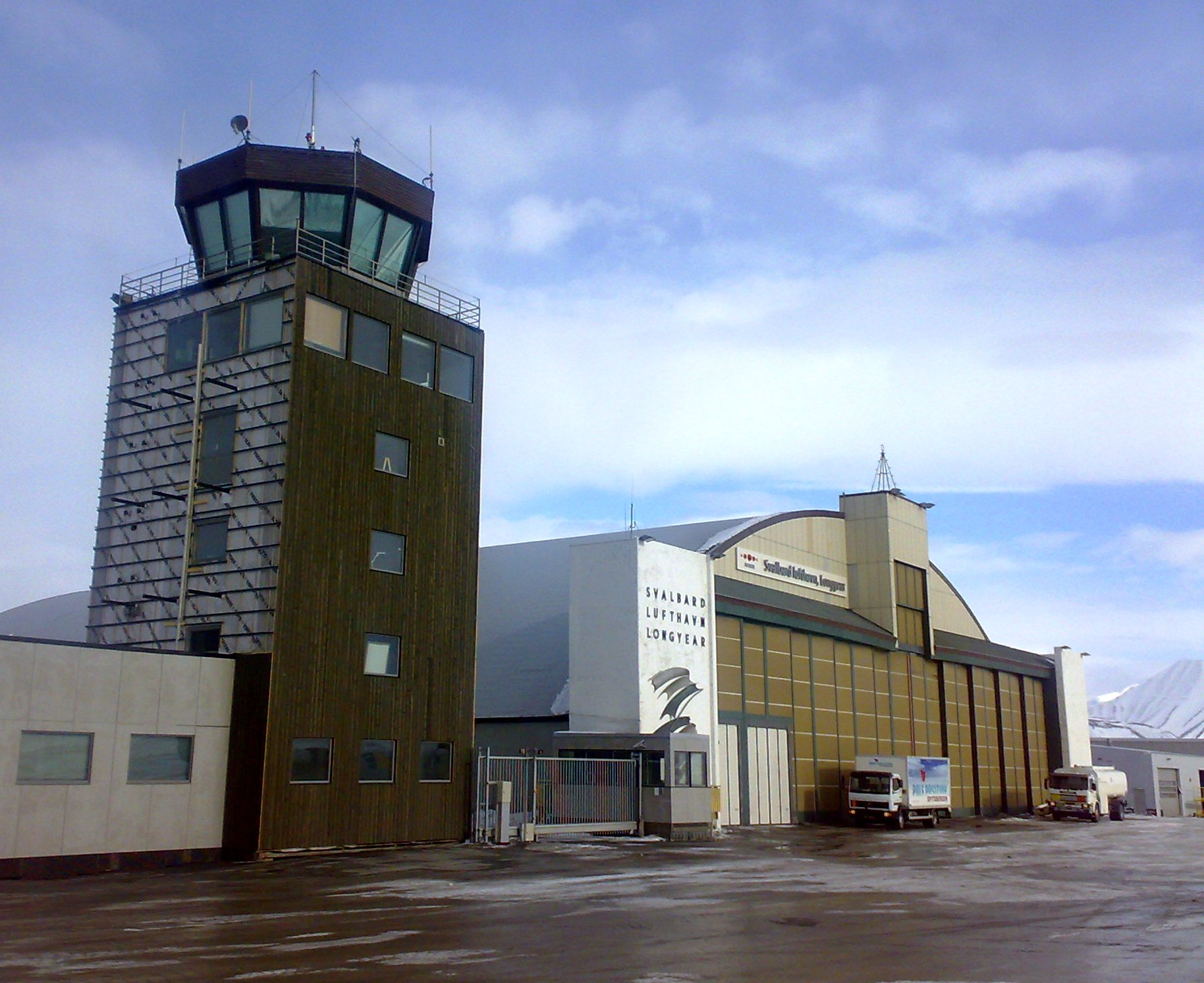 Svalbard airport, Longyear